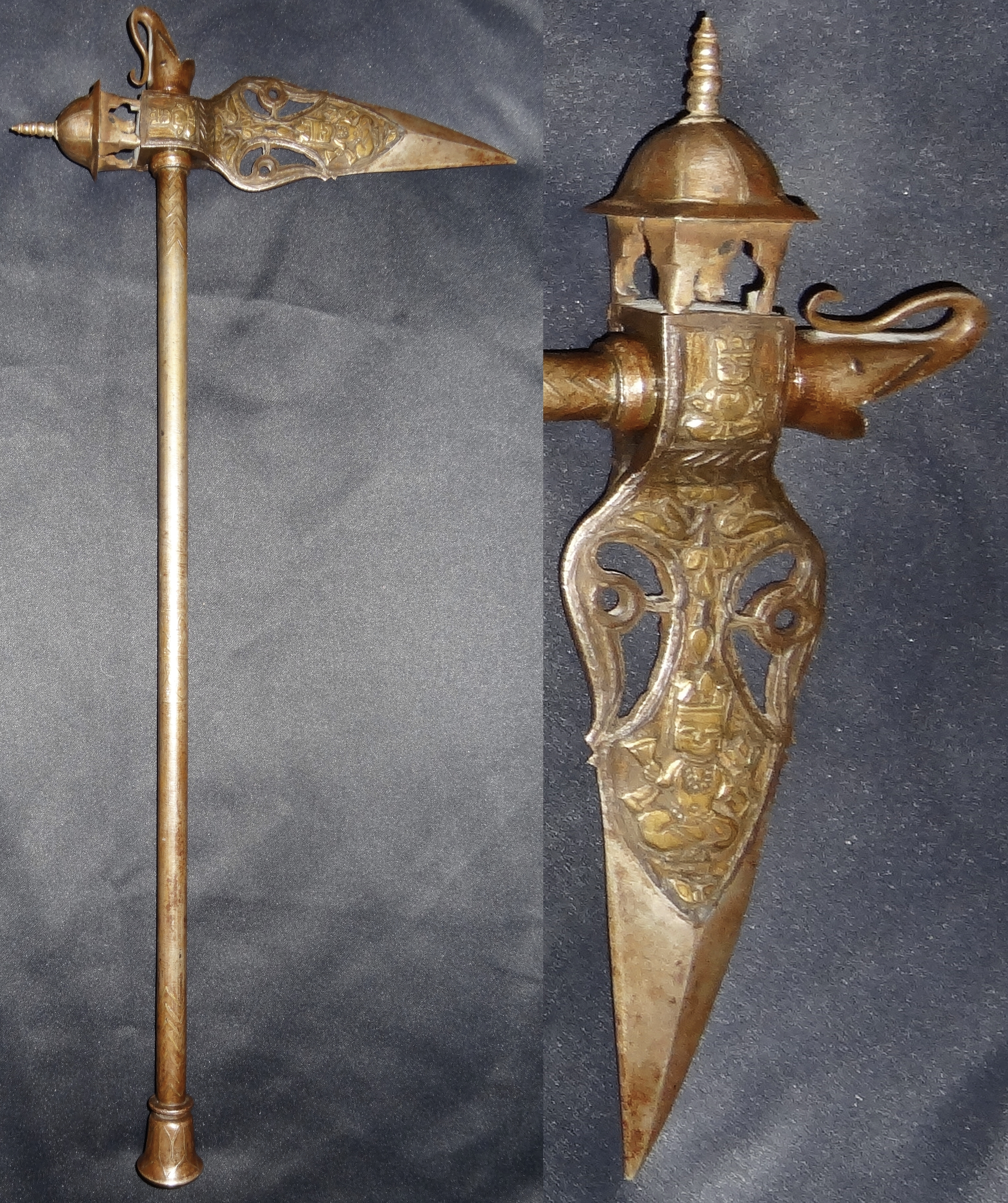 Indian zaghnal war hammer / pick.